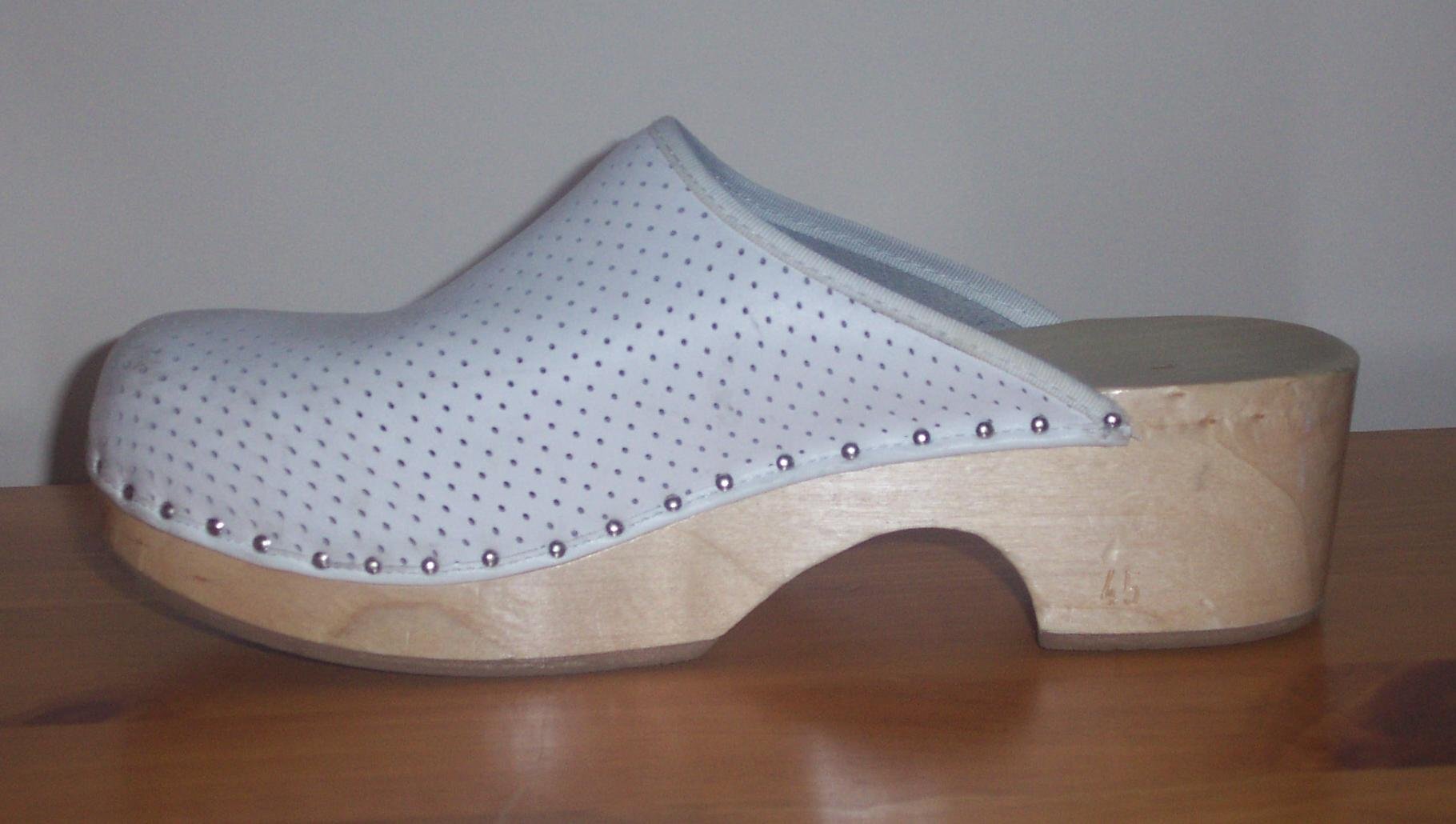 Clog, mule-style, with wooden sole and perforated leather upper, made by the German company Berkemann. Model Standard-Toeffler. Colour wood and white.